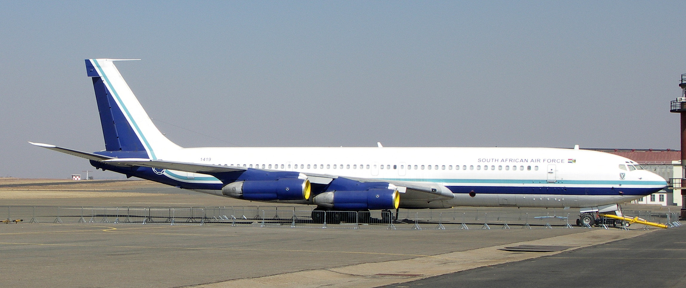 Retired South Africa Air Force 707-328C number 1419